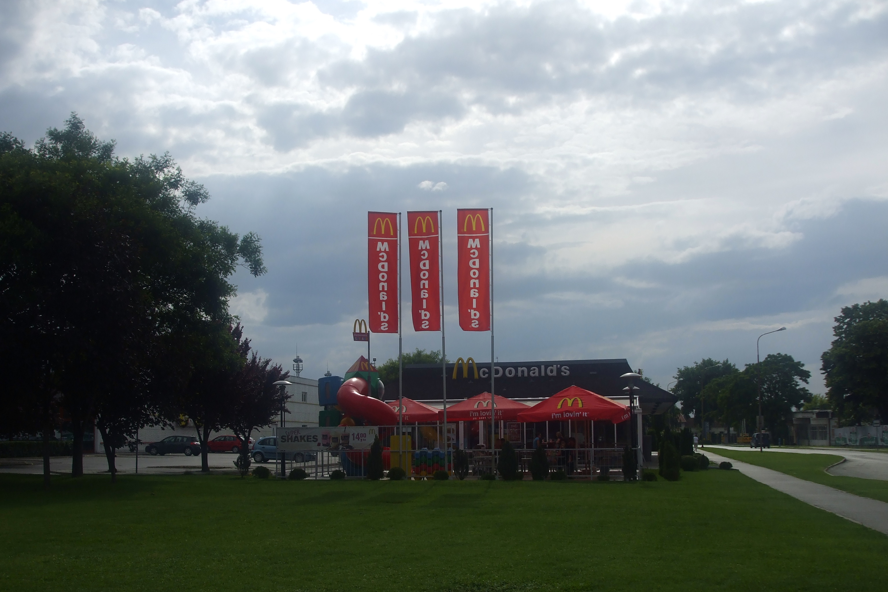 McDrive in Osijek, Croatia.